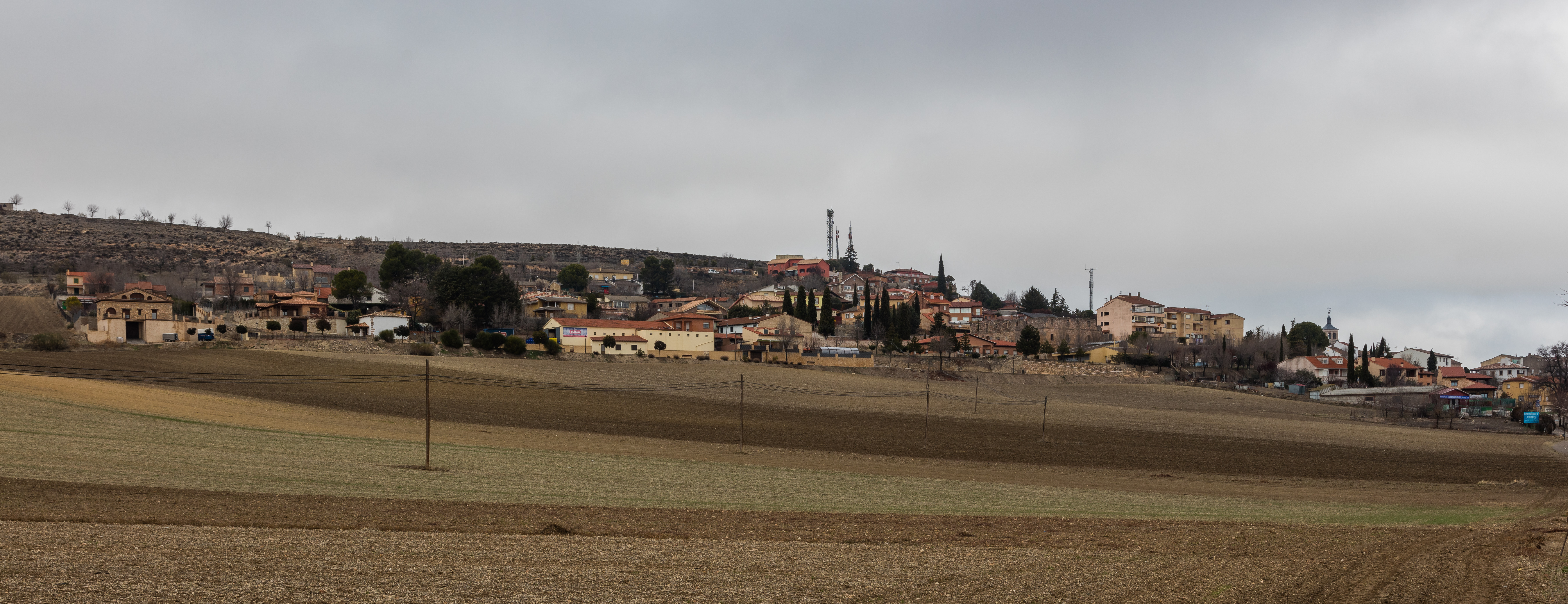 Cogolludo, Guadalajara, Spain